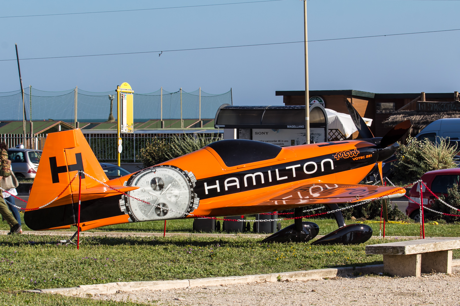 MSW Votec 221 at the 2014 Rome International Air Show